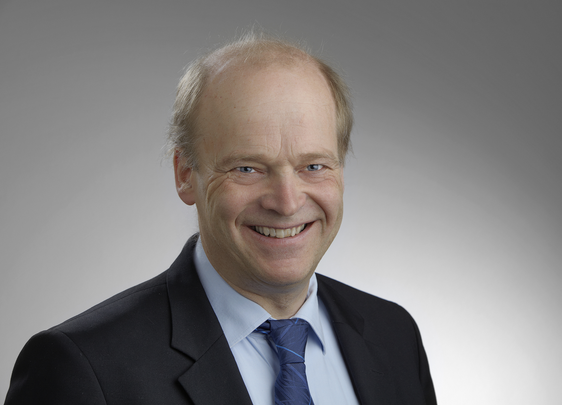 This press images shows Henrik Stiesdal.